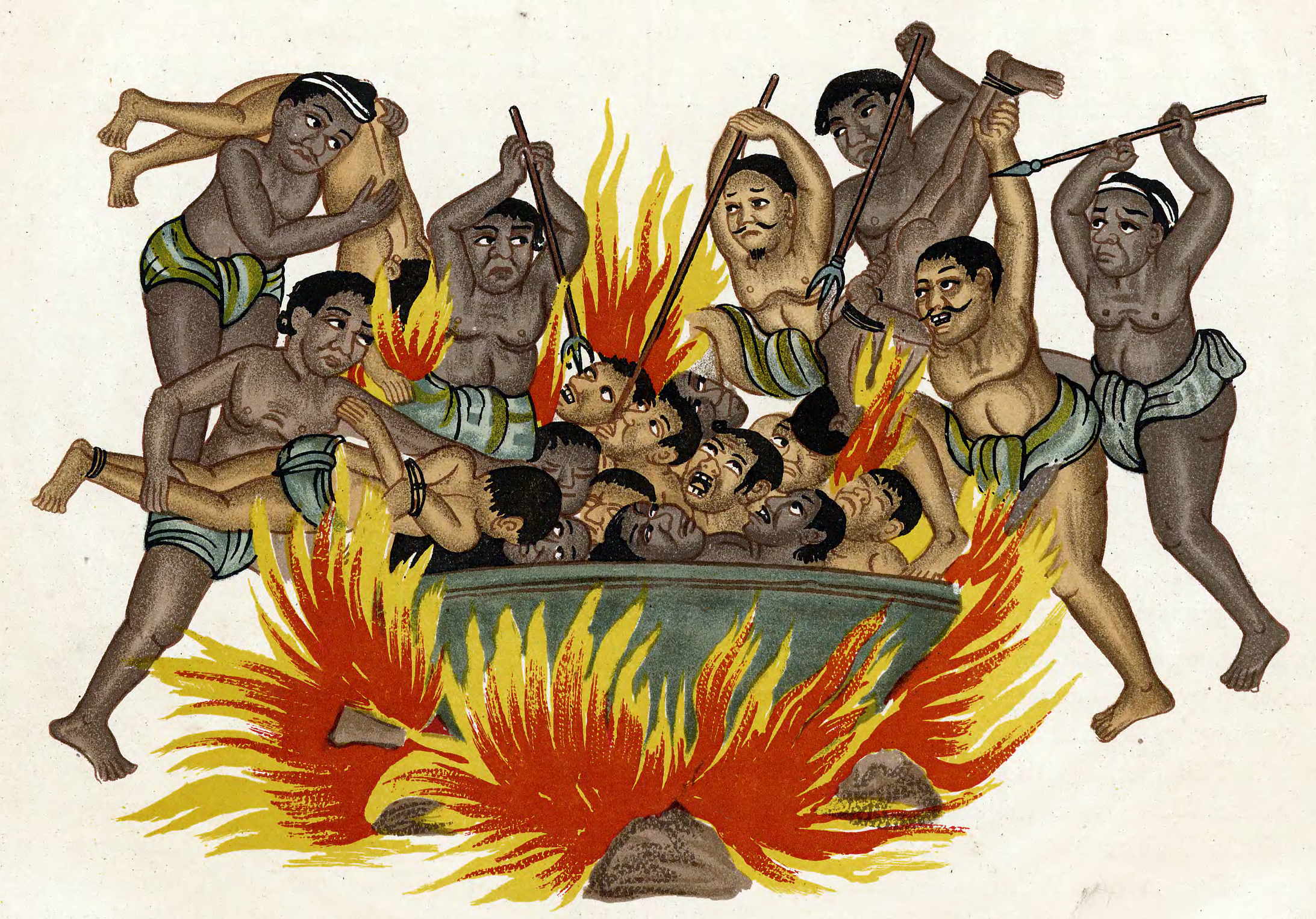 Buddhist hell (naraka) in Burmese representation